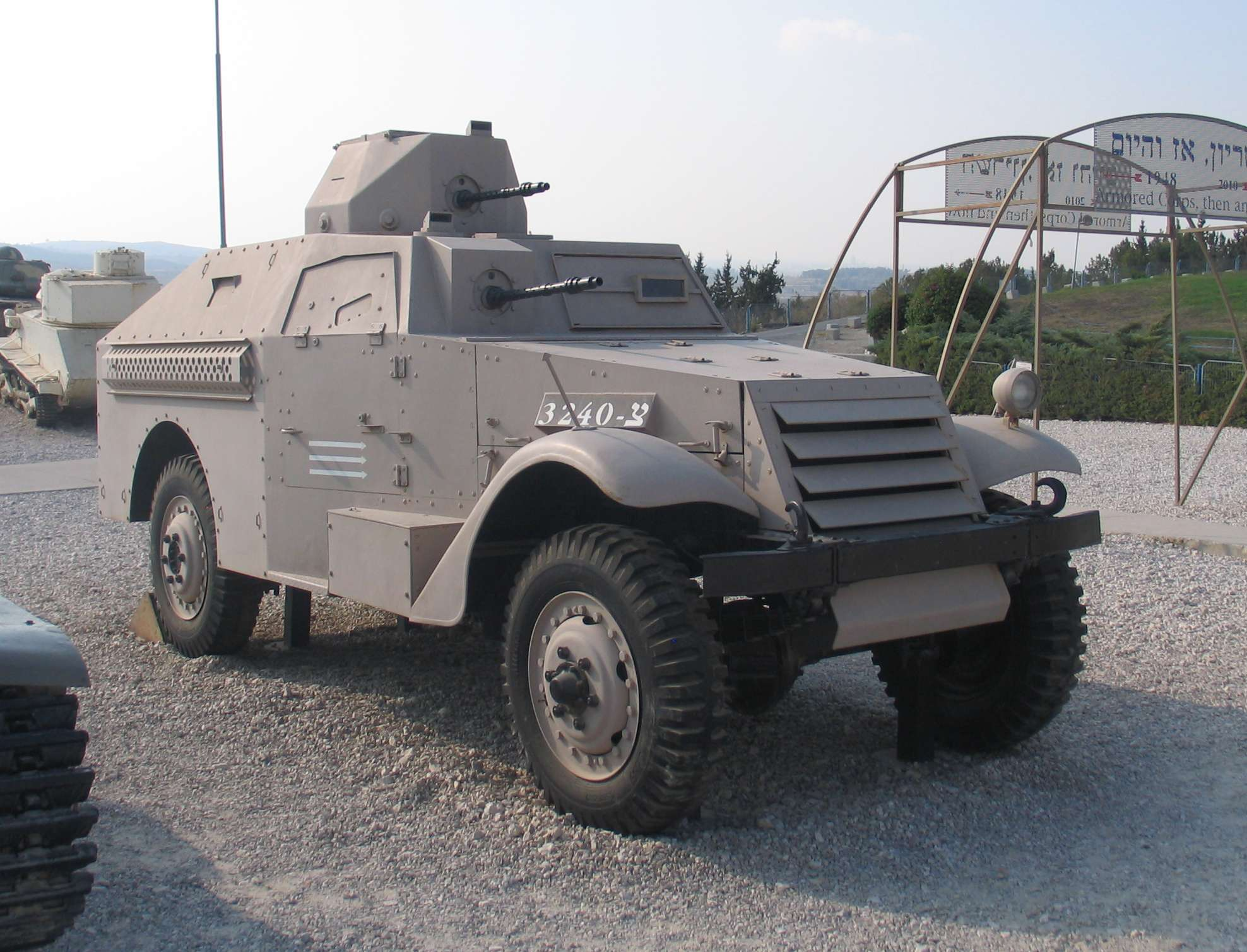 Modified M3 Scout Car, in Yad la-Shiryon museum, Latrun, Israel.